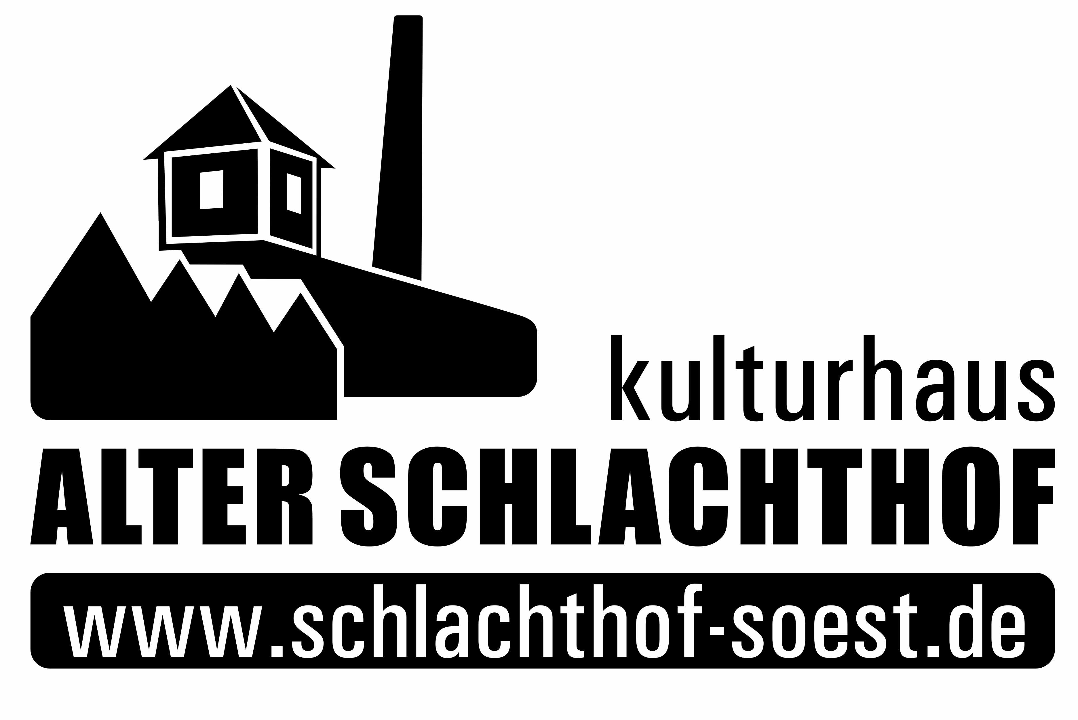 Kulturhaus "Alter Schlachthof" e.V.